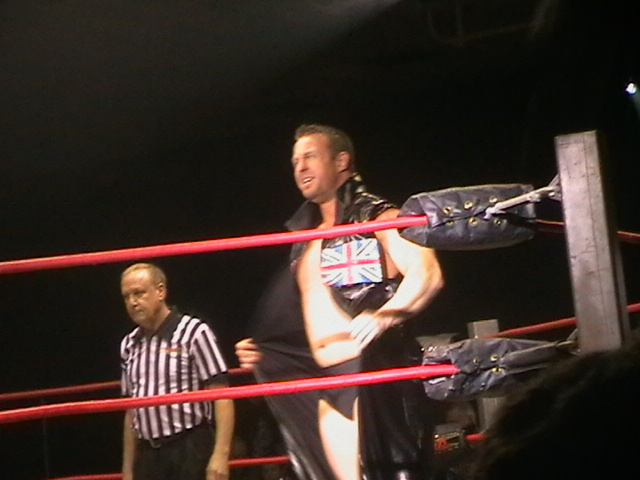 This is a picture of Doug Williams at a house show in Dublin, Ireland for the TNA Maxium Impact tour. Doug Williams at a house show in Dublin, Ireland Licensing Category:Professional wrestling free use media